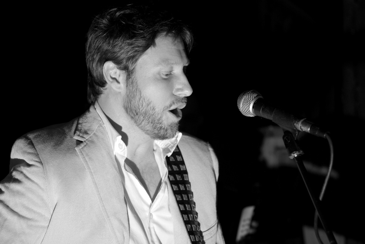 Cory Branan performs at The Whitewater Tavern, Little Rock, AR, New Year's Eve, 2010.